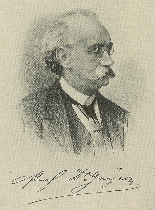 Johann Christian Karl Gayer (1822-1907), German forestry scientist